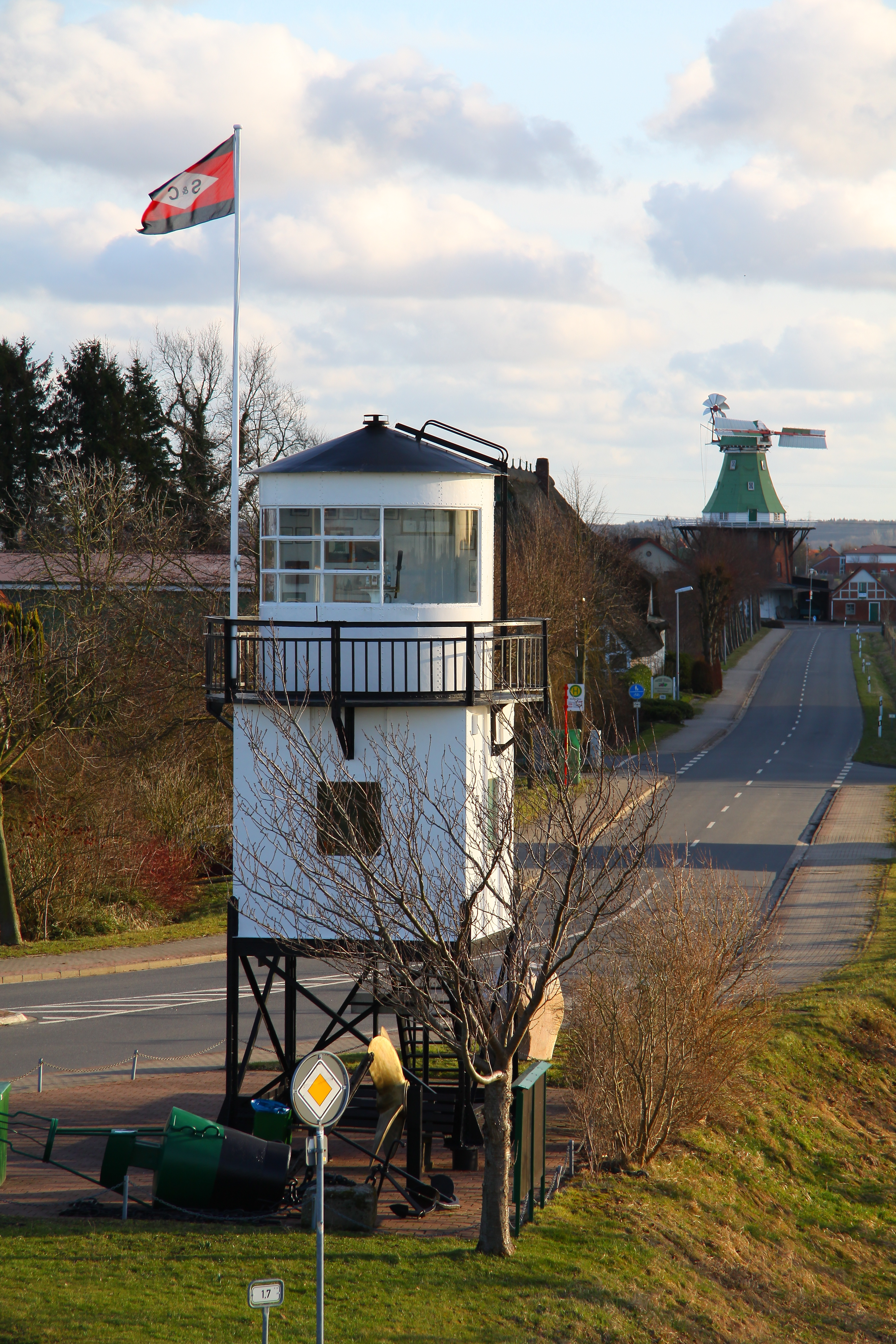 The old lighthouse in Twielenfleth (Alter Leuchtturm), in operation between 1893 and October 1984, then moved to its present location in November 1984.[1]